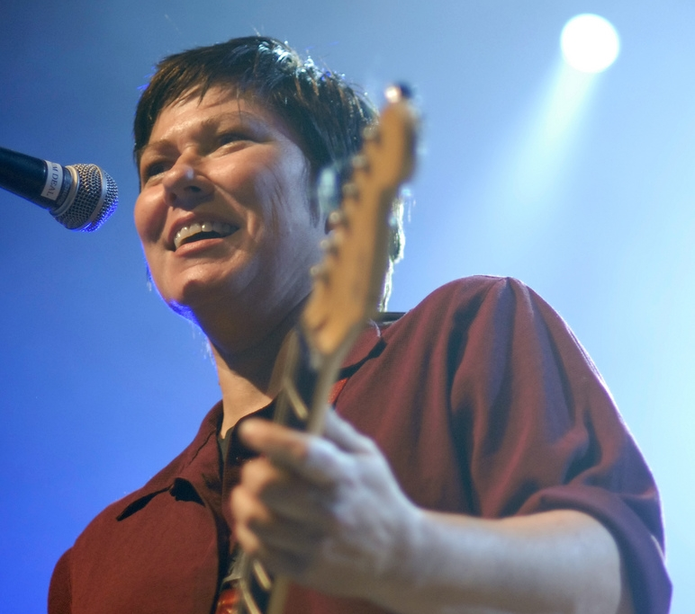 Kim Deal on stage with The Breeders at All Tomorrow's Parties 2009.